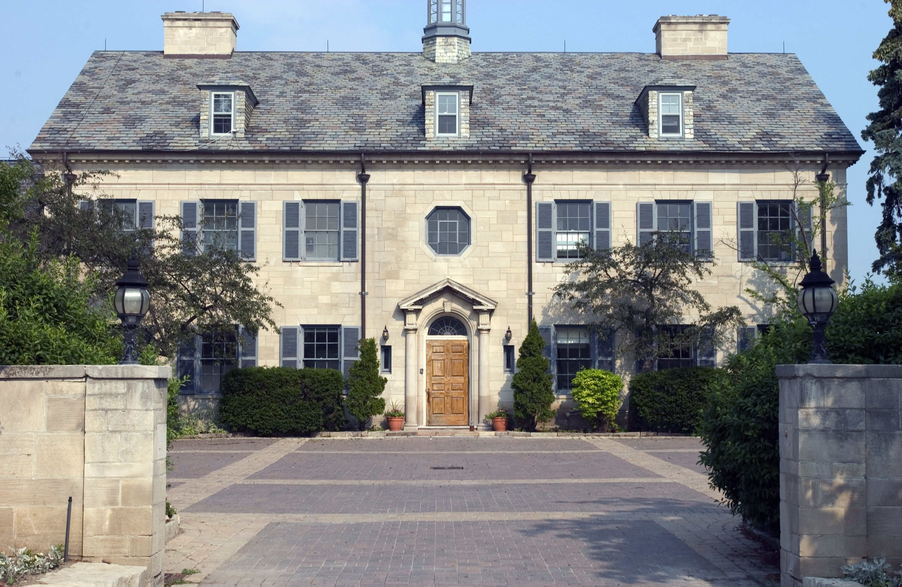 The front of Crescent School, also known as The Manor. 2365 Bayview Avenue, Toronto